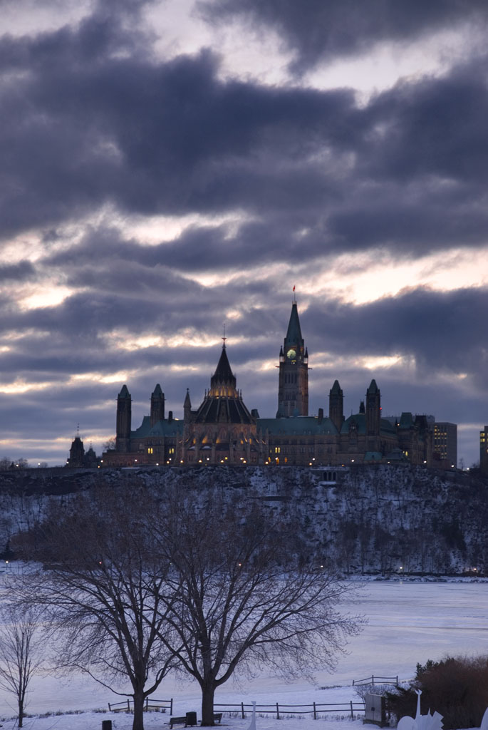 Parliament Hill, Ottawa